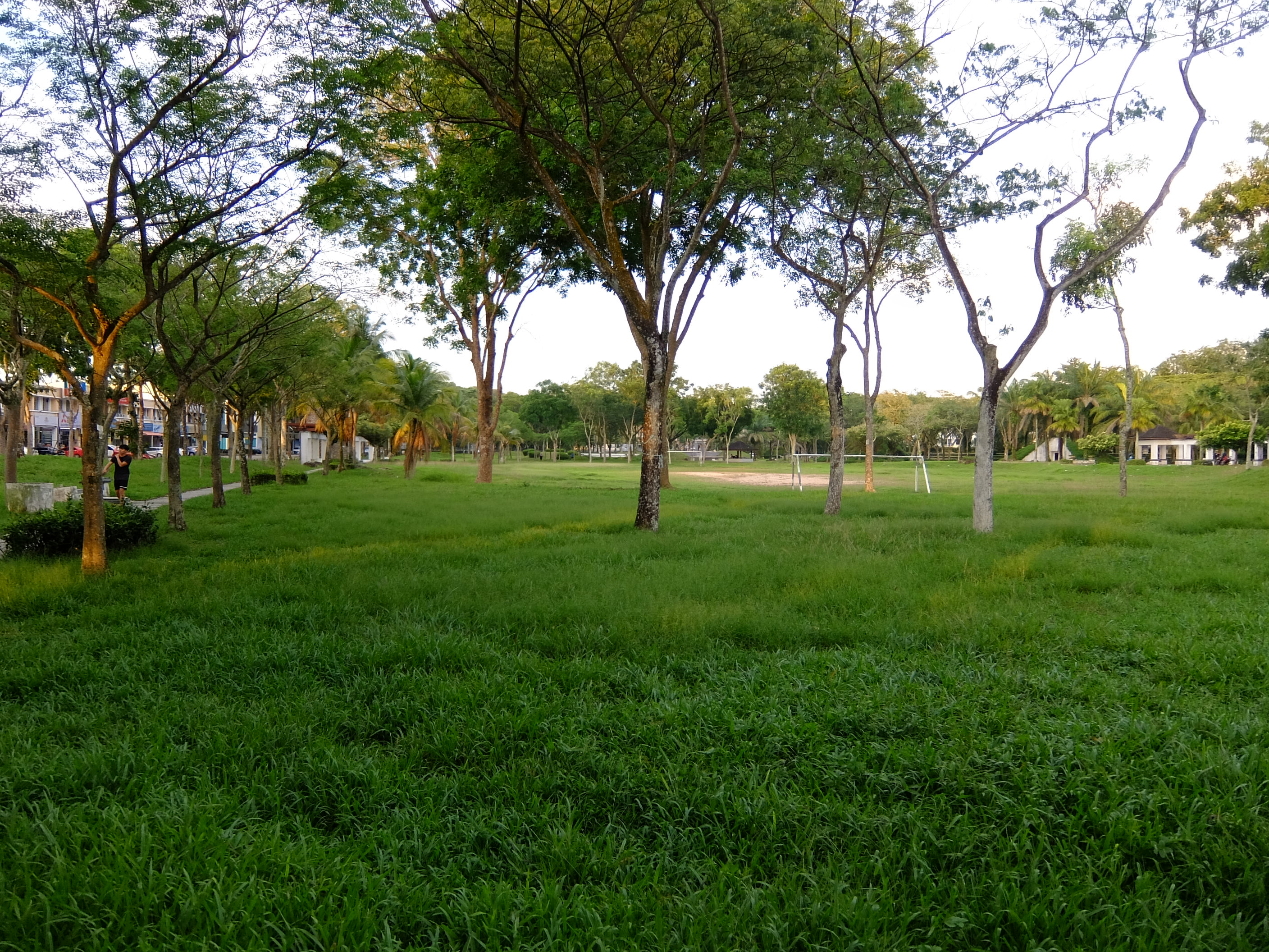 Setia Indah Park, Setia Indah, Johor Bahru, Johor, Malaysia